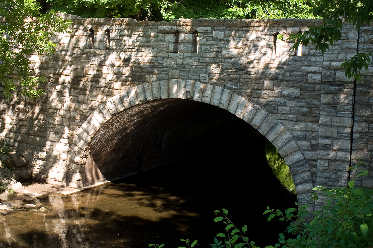 Bridge No. 8096 over Spring Creek, Northfield, Minnesota. June 2008.